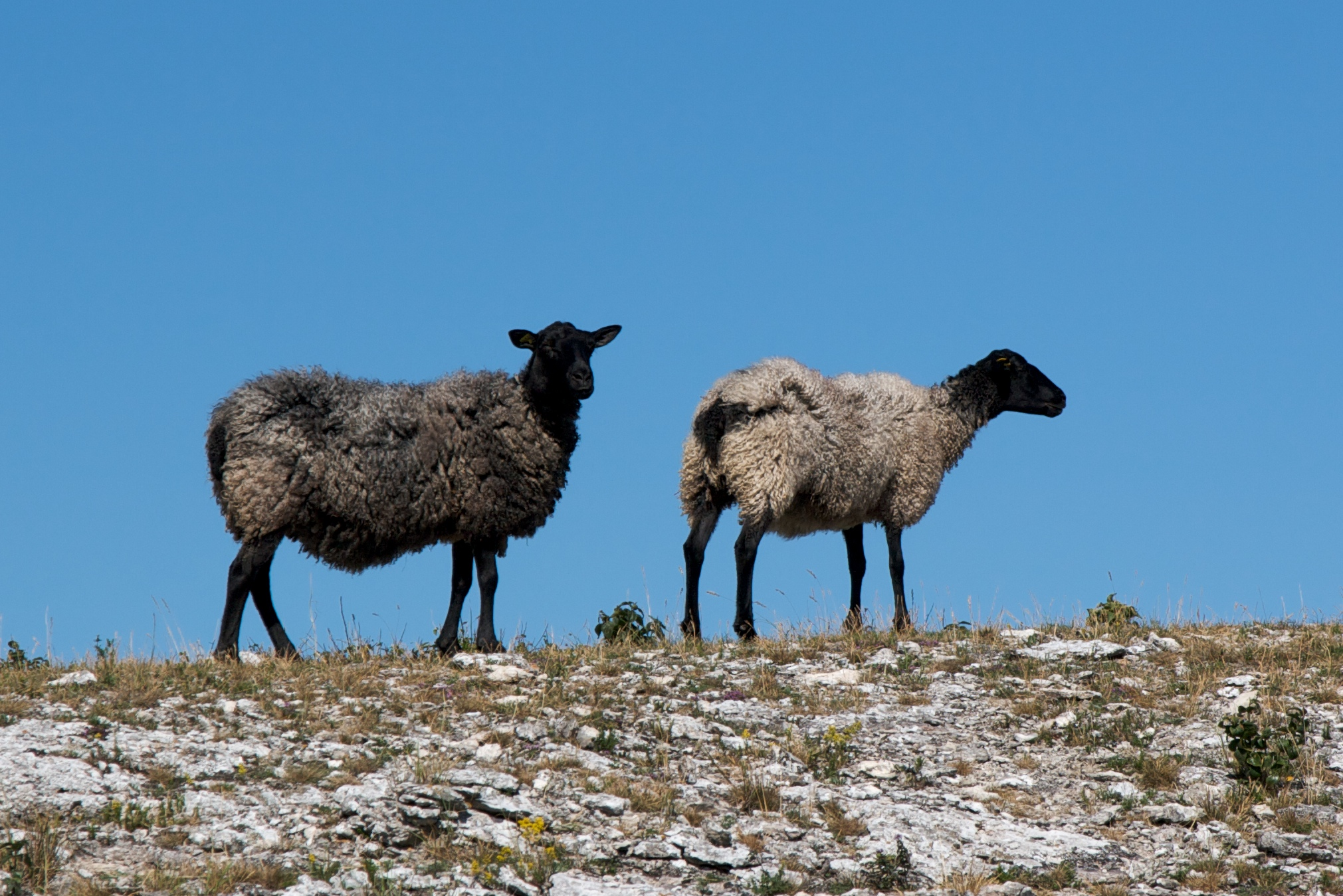 Sheep on Stora Karlso, Sweden